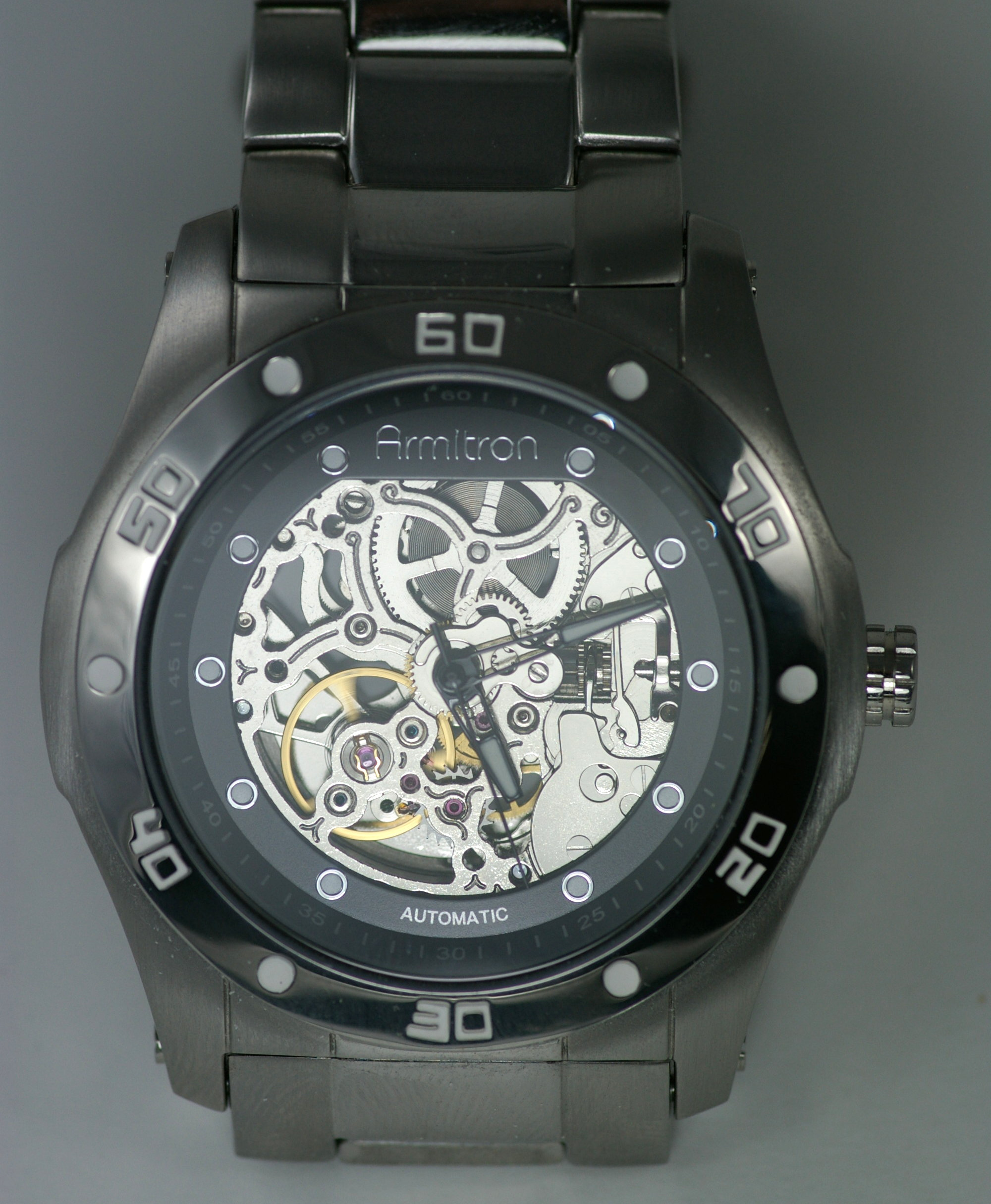 An automatic skeleton watch. The movement is a China-made Sea-Gull ST16, but with lots of holes cut in plates and gears. Details of the mainspring and escapement are also on commons.